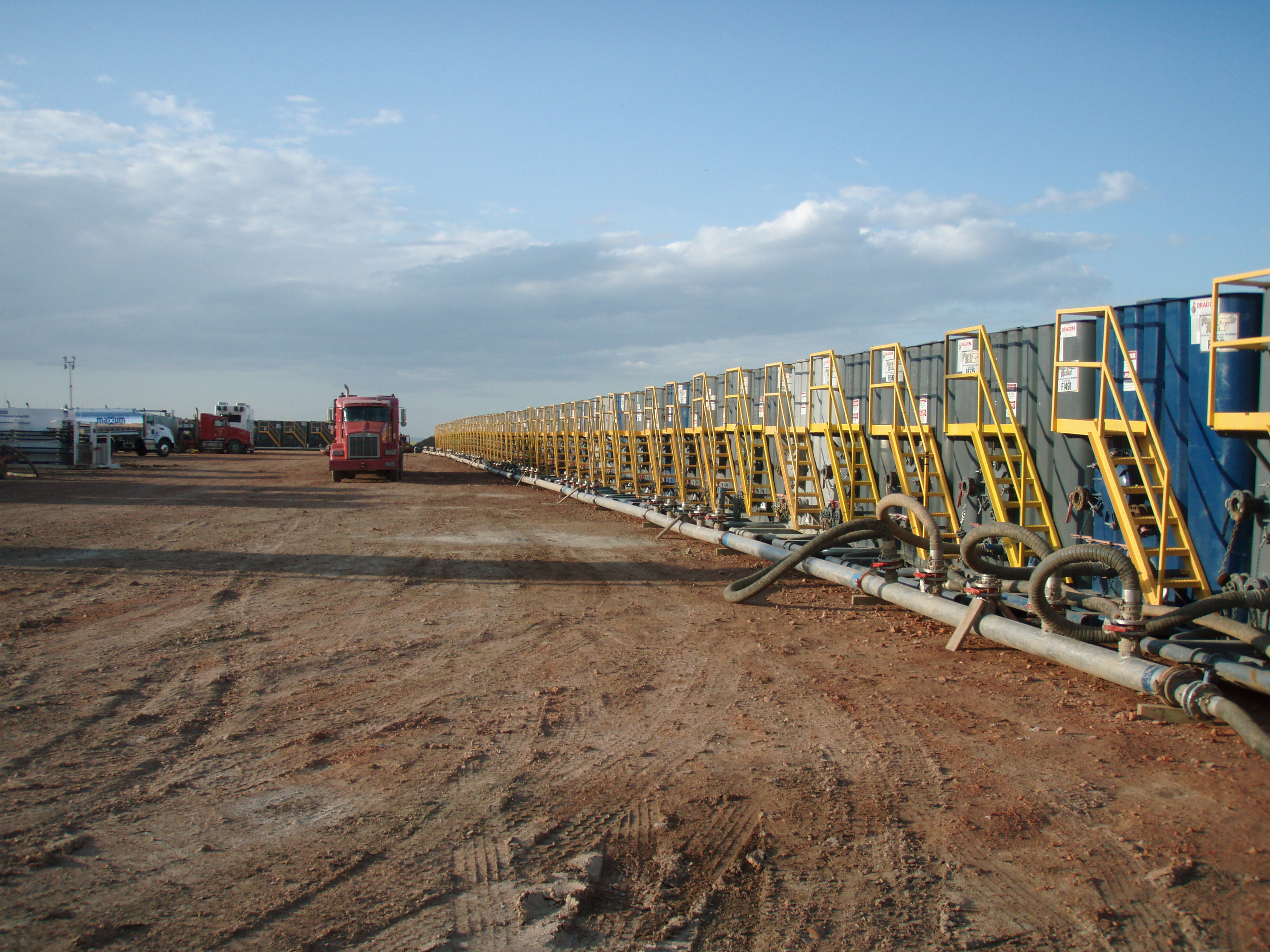 Water tanks preparing for a frac job